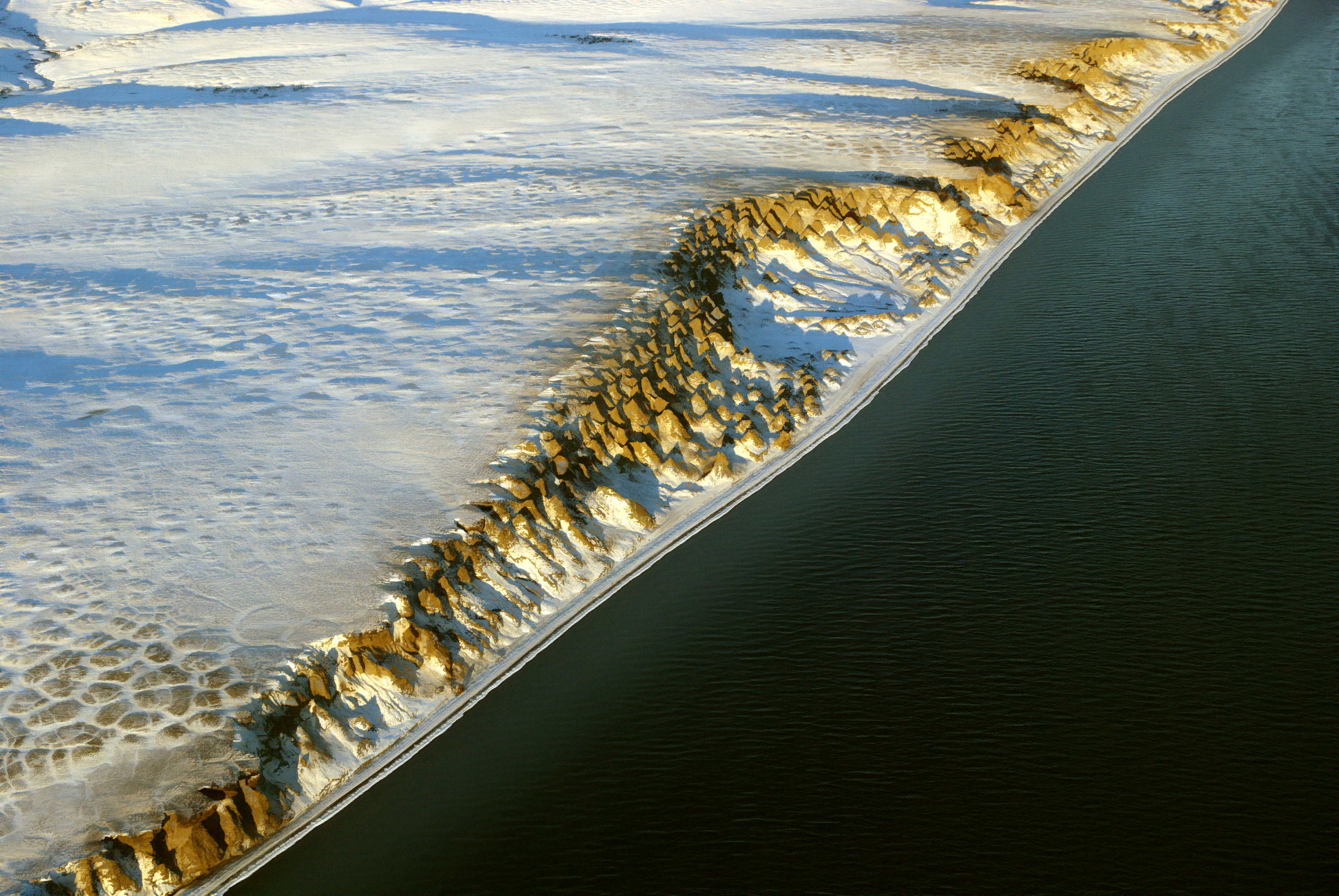 Part of the coast of Stolbovoy Island (part of the large Lena Delta resource reserve) showing the cliff formations